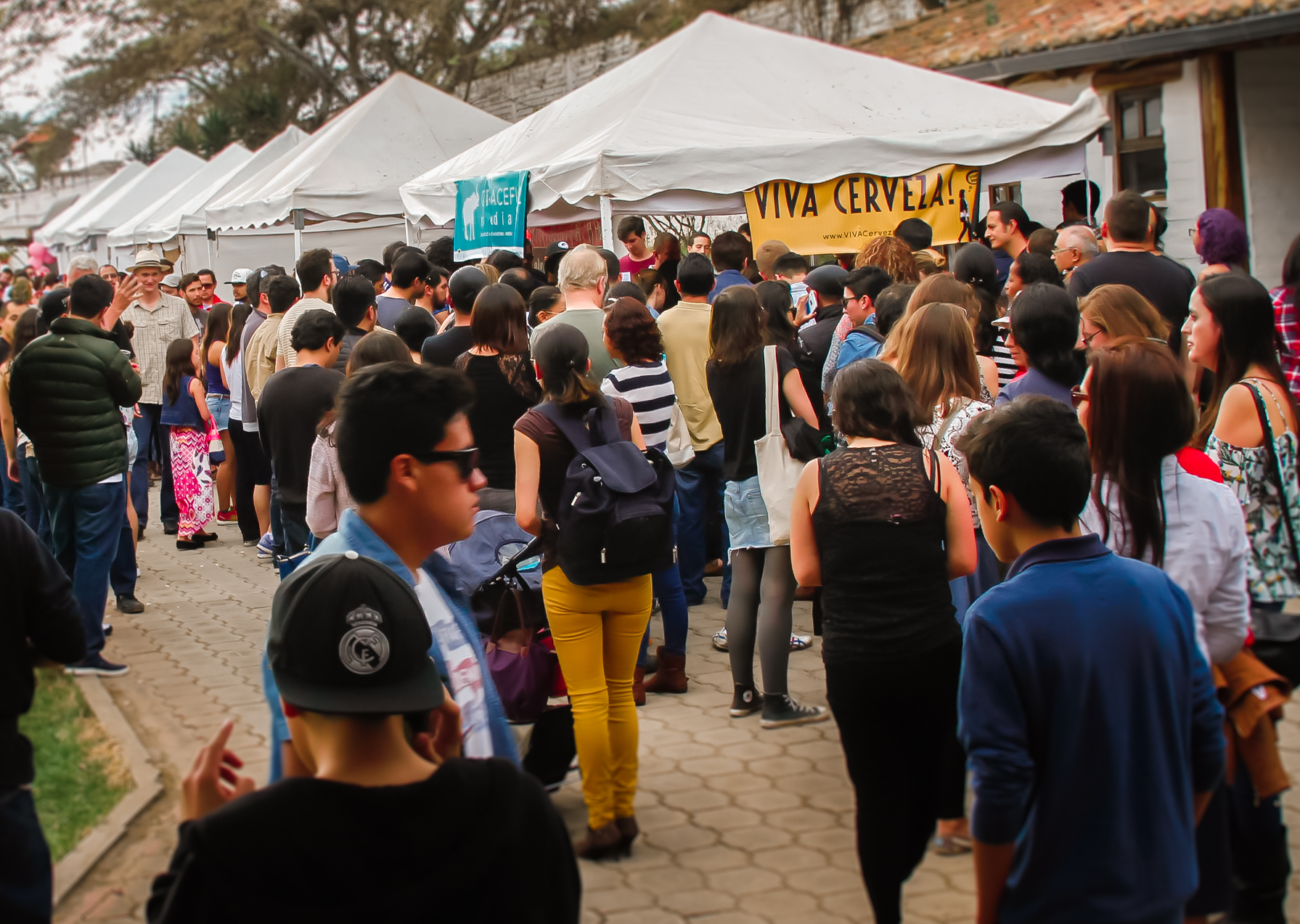 Trying to get in @ Ecuador's 1st Craft Beer Festival - VIVA Cerveza! 2016